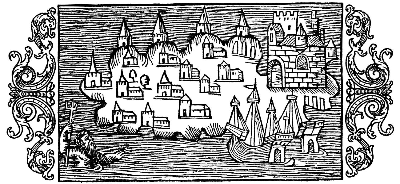 Gotland in the Baltic Sea is shown from the east. The castle to the right represents the old Hanseatic town of Visby with its ring wall.